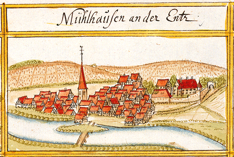 View of Mühlhausen an der Enz, Mühlacker, from the forest register books created by Andreas Kieser